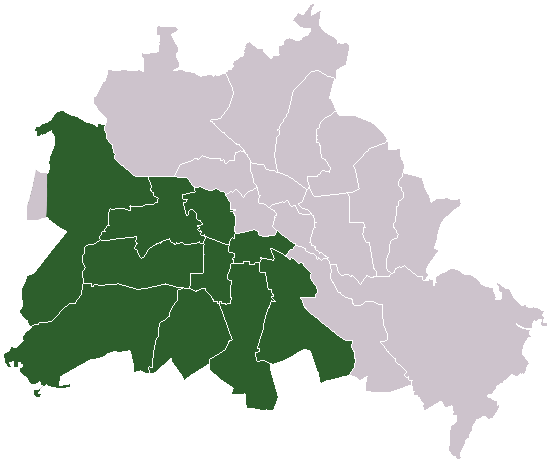 Bizone in Berlin, Germany (1947-1948)